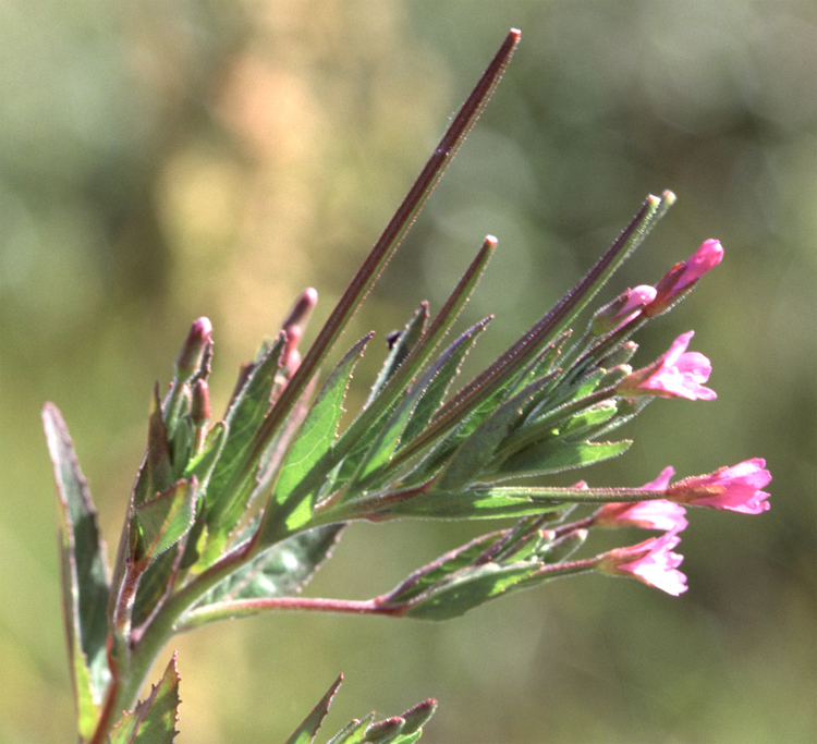 Epilobium ciliatum ssp. watsonii. At the Humboldt Bay National Wildlife Refuge, Humboldt County, coastal Northern California.